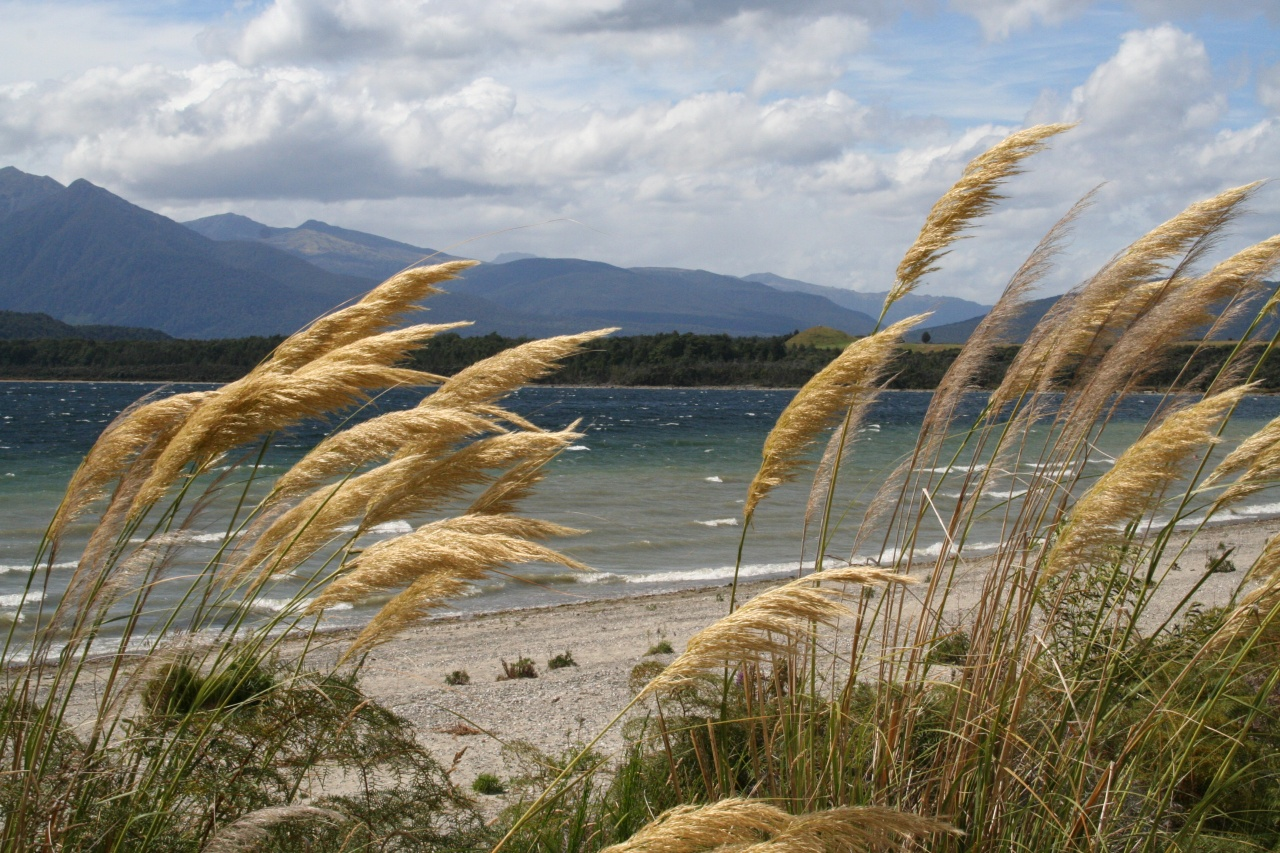 Toetoe (Austroderia sp.) growing at Lake Manapouri - North